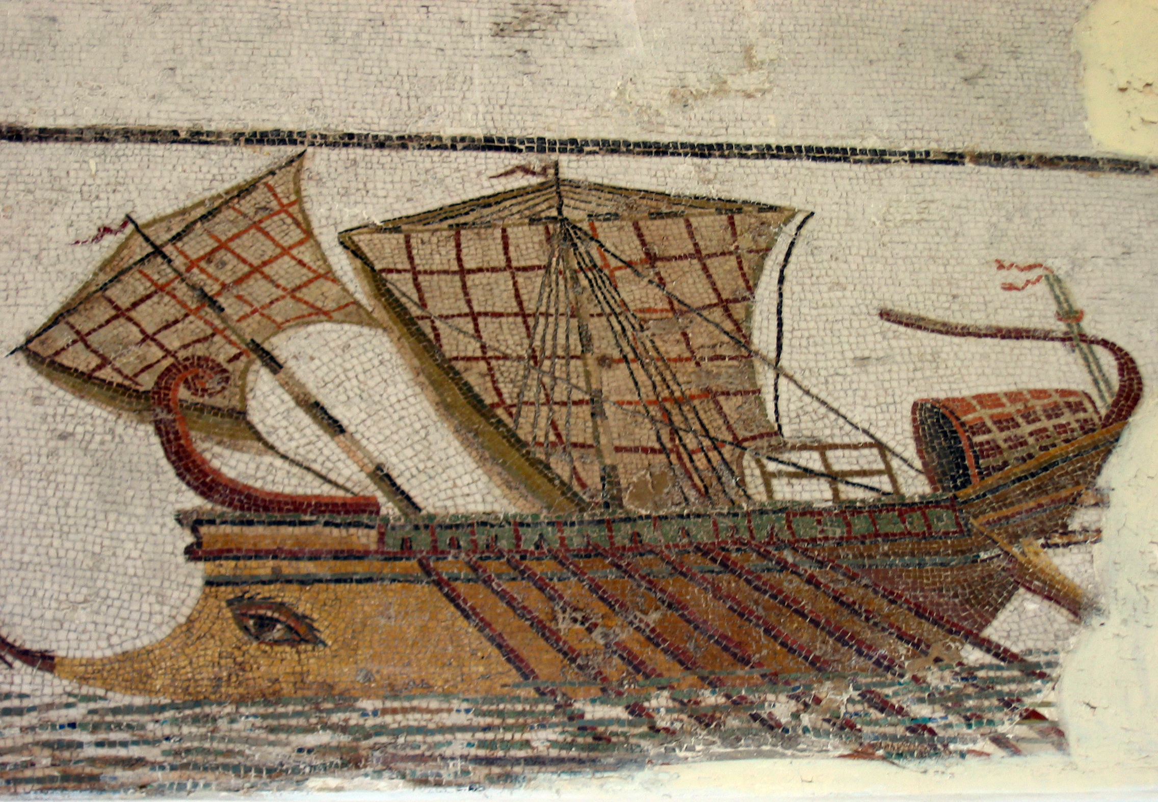 Roman trireme on the mosaic in Tunisia image taken by user:Mathiasrex Maciej Szczepańczyk